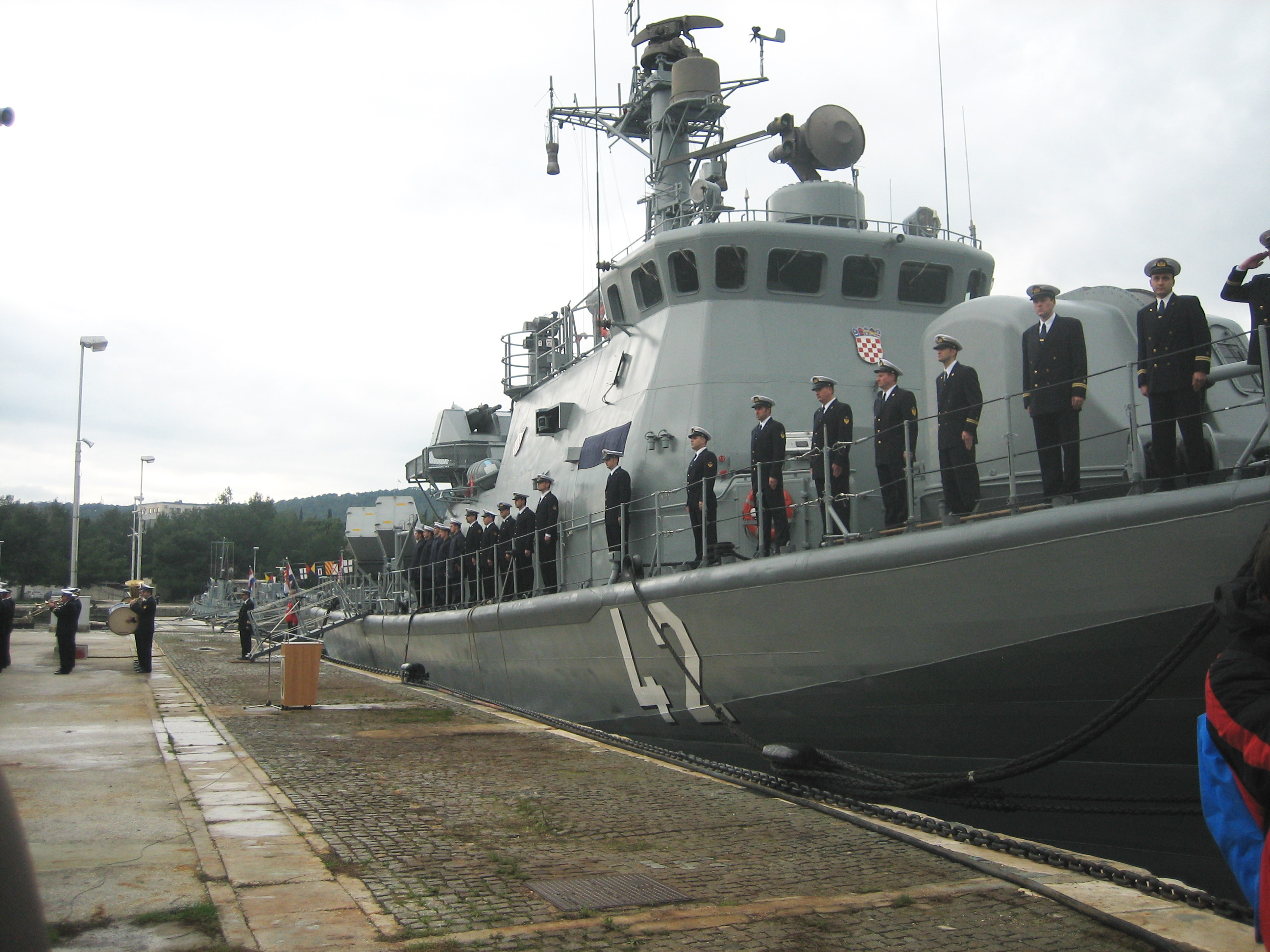 RTOP-42 Dubrovnik